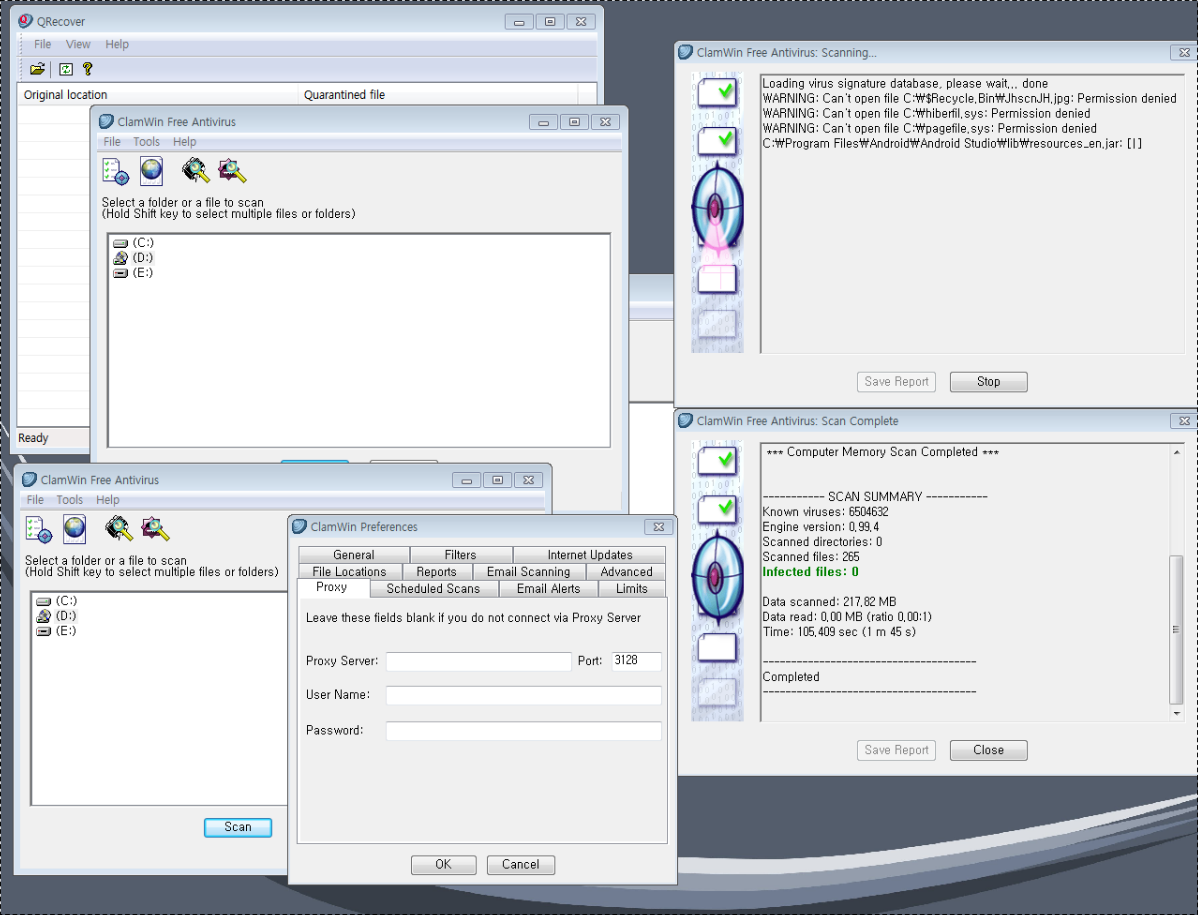 ClamAVwin high performance